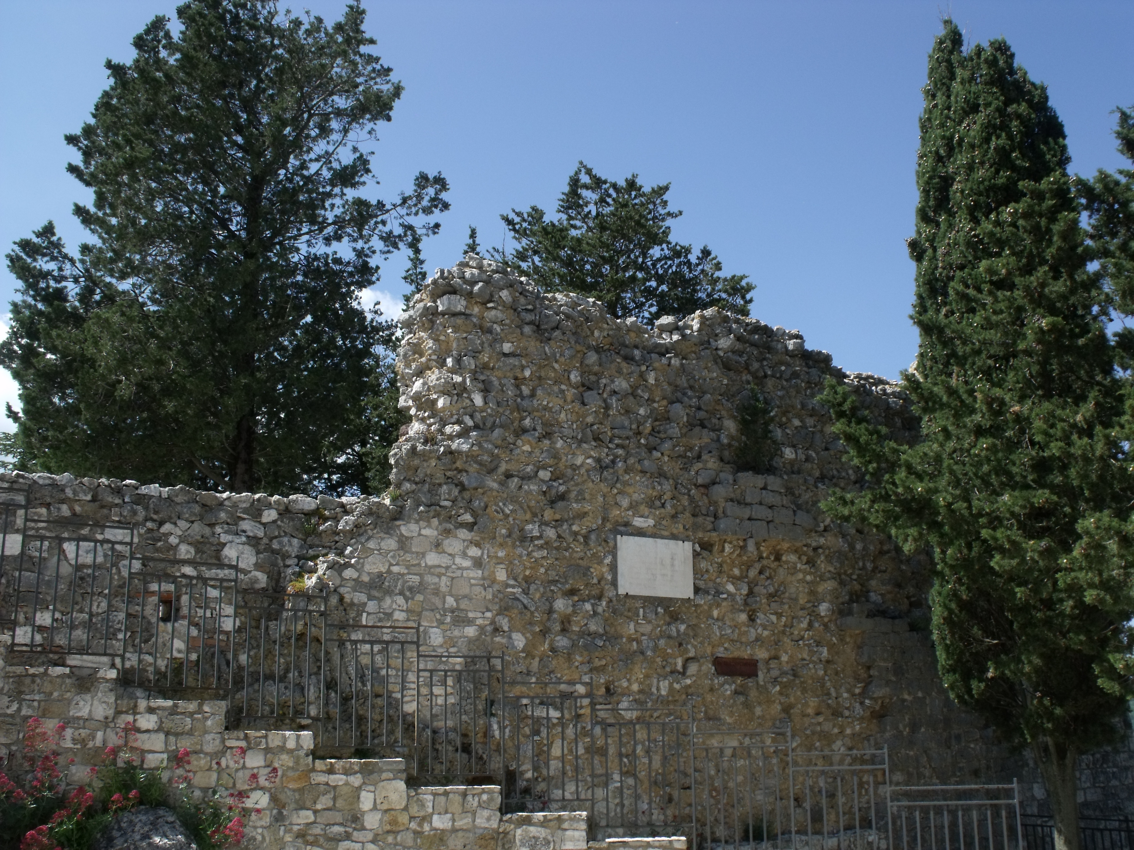 Castle Ruin Rocca Aldobrandesca in Semproniano, Maremma, Monte Amiata, Province of Grosseto, Tuscany, Itay